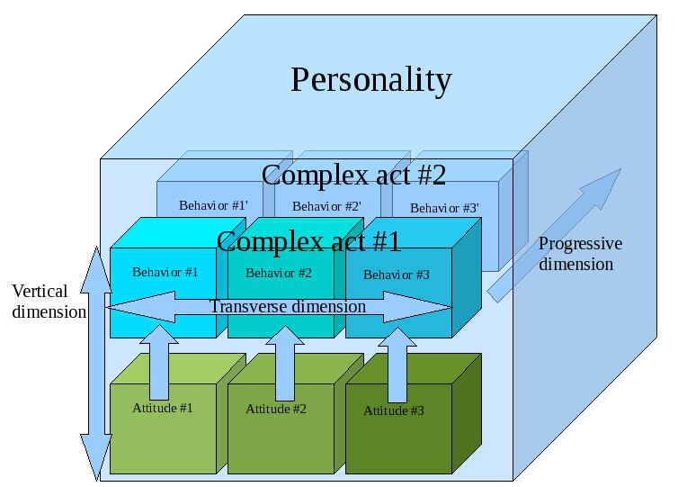 Biospheric model of personality, based on information from Angyal, A. (1941) Foundations for a science of personality, The Commonwealth Fund.